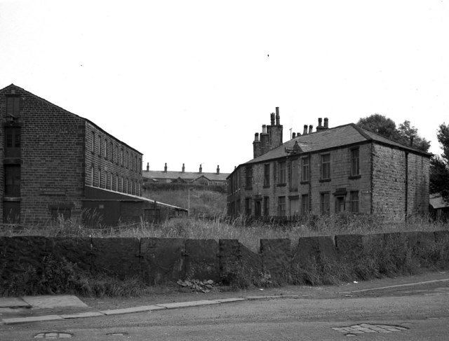 Buckley Mill in Rochdale, Greater Manchester, England.